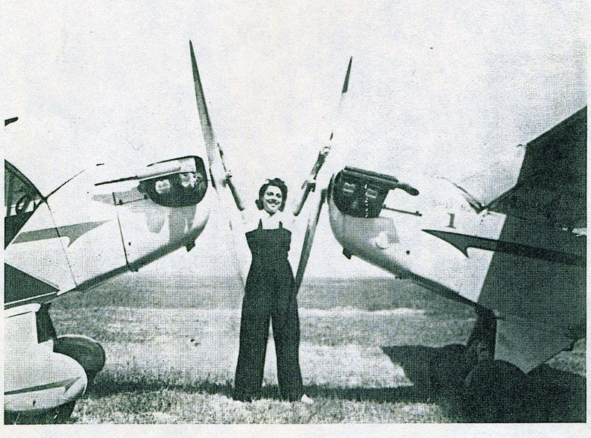 Willa Brown as a young woman, standing on an airfield, between two planes